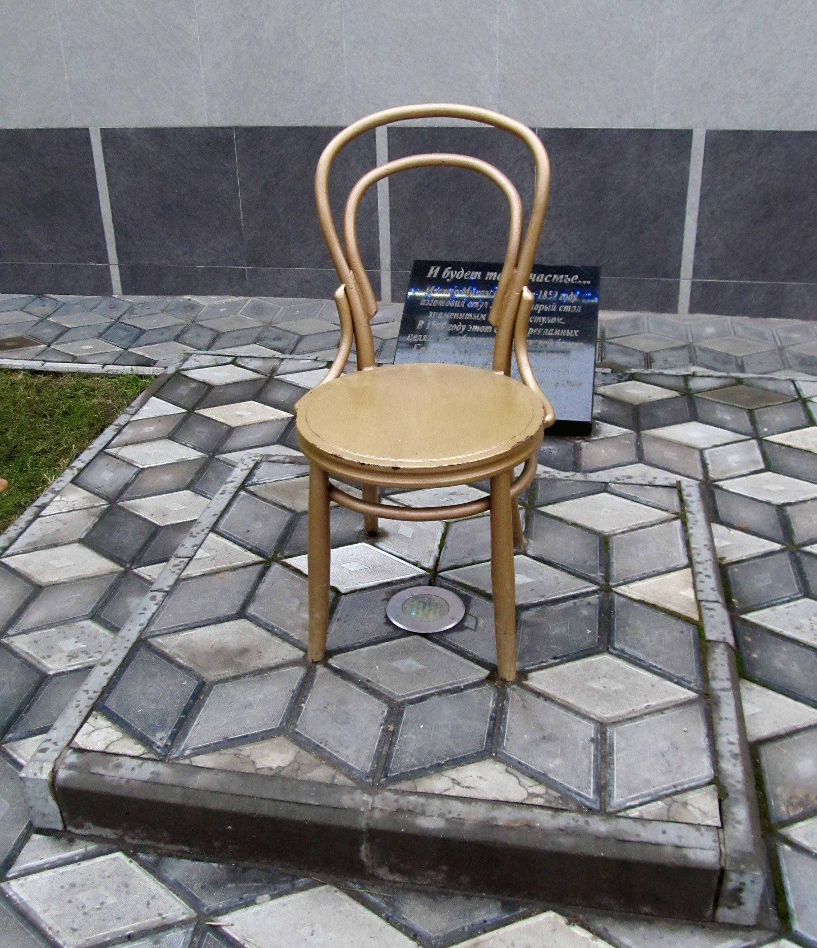 Monument to Michael Thonet's chair in Melitopol (Zaporizhia Oblast, Ukraine)